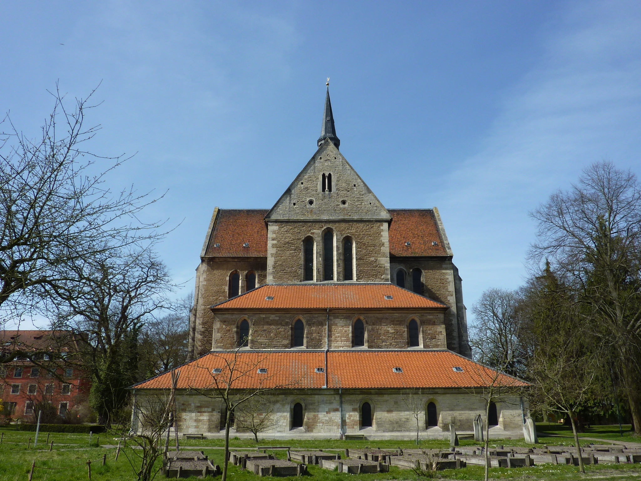 Riddagshausen Klosterkirche Exterior